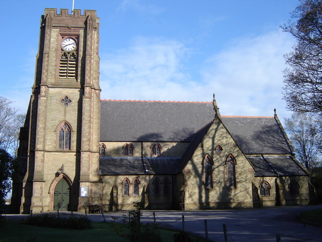 St Paul's parish church, Railway Road, Adlington, Lancashire, seen from the southeast